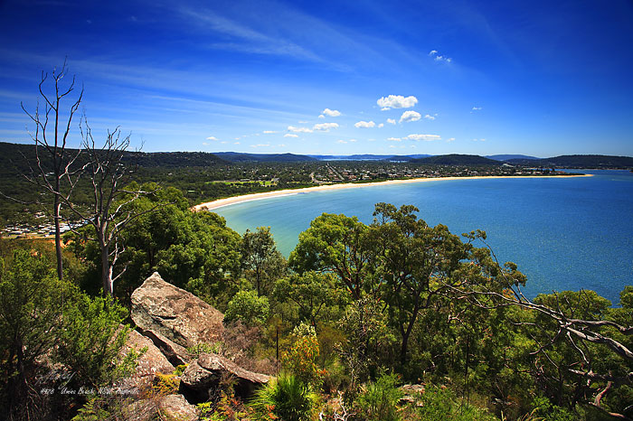 Umina